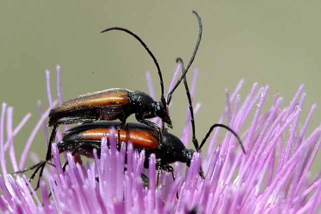 Picture taken in Commanster, Belgian High Ardennes . Species: 'Stenurella melanura couple